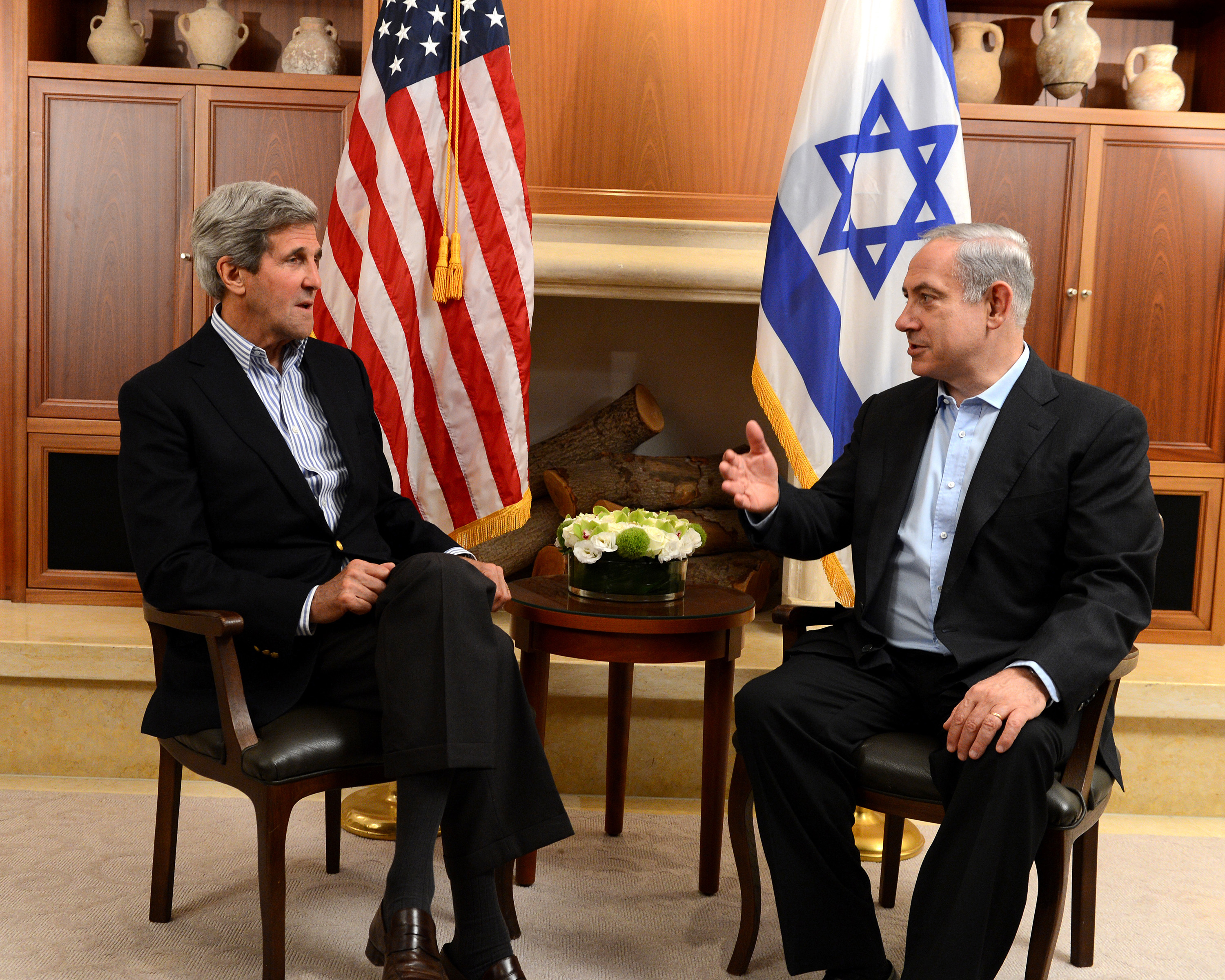 U.S. Secretary of State John Kerry sits with Israeli Prime Minister Benjamin Netanyahu before the two began a working dinner in Jerusalem on June 27, 2013. [State Department photo/ Public Domain]